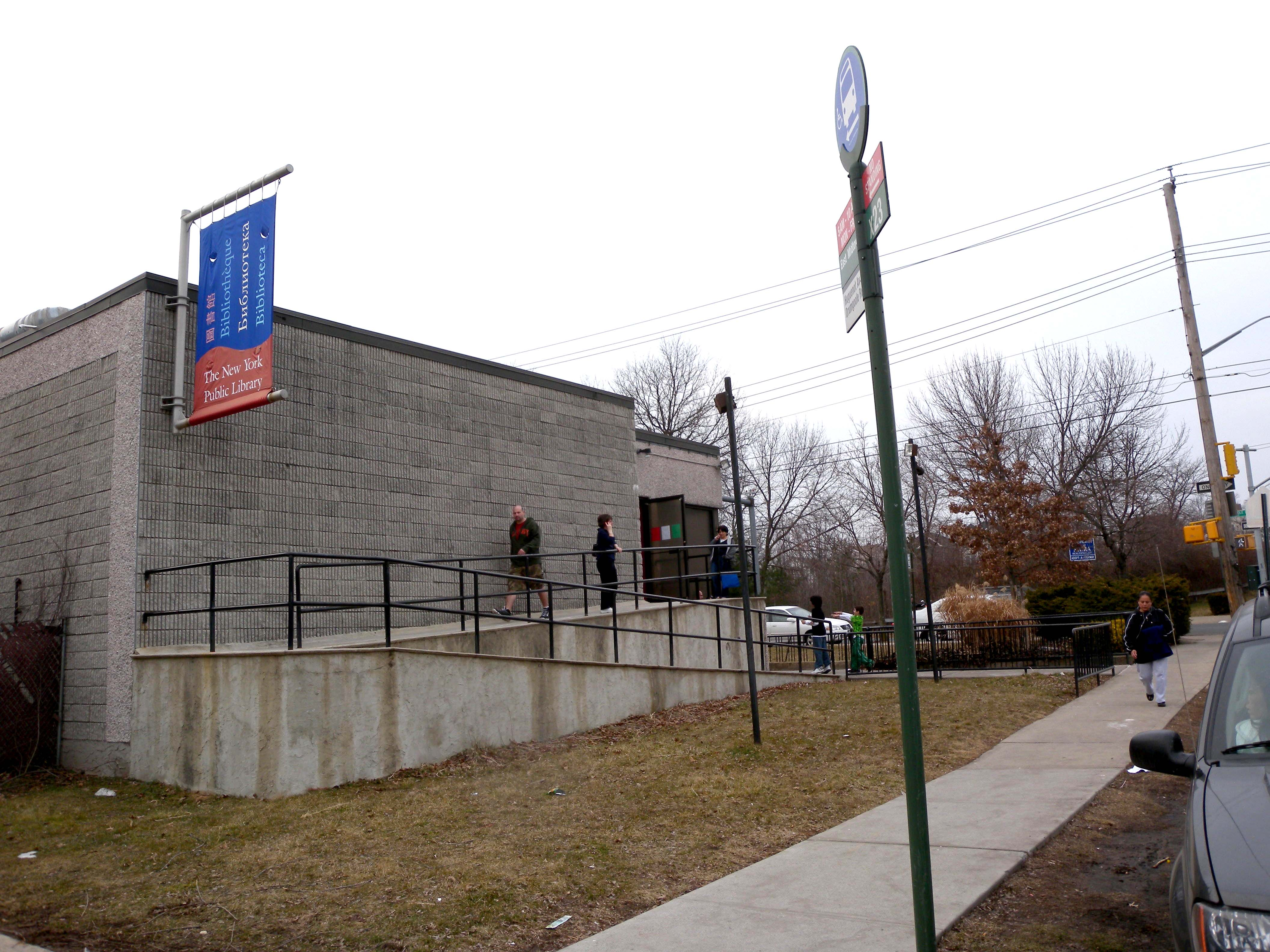 Looking northwest at Huguenot Branch of New York Public Library on a cloudy afternoon. ZIP 10312.